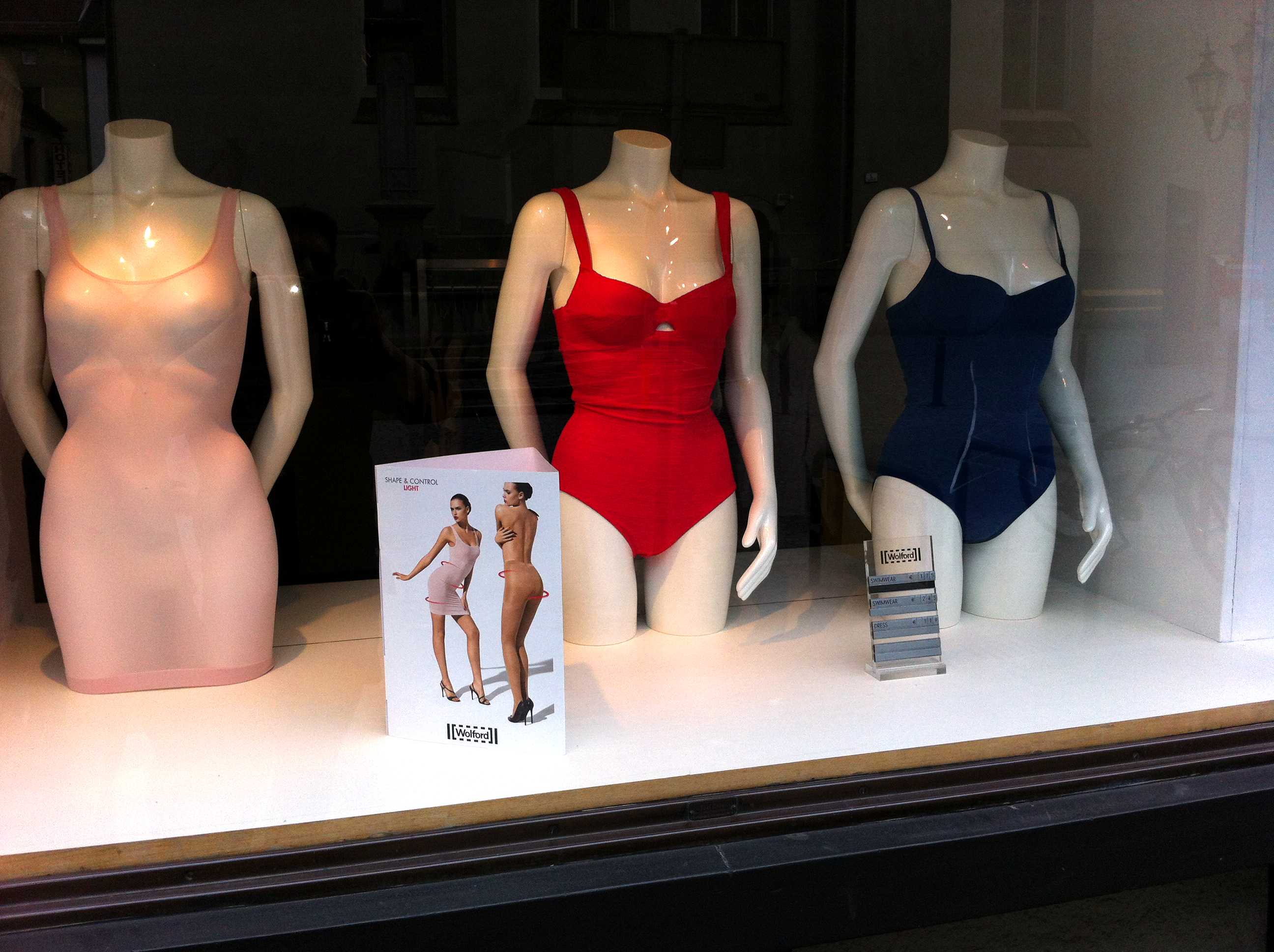 Wolford Shop front in Feldkirch (Austria) displaying "Shapewear" collection 2012